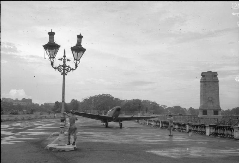 Royal Air Force Operations in the Far East, 1941-1945. A Supermarine Spitfire Mark VIII taxies to the end of the Red Road airstrip (marked by the lamp post) in Calcutta, India, for take off.